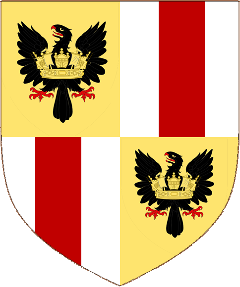 Shield of arms of The Earl of Northesk